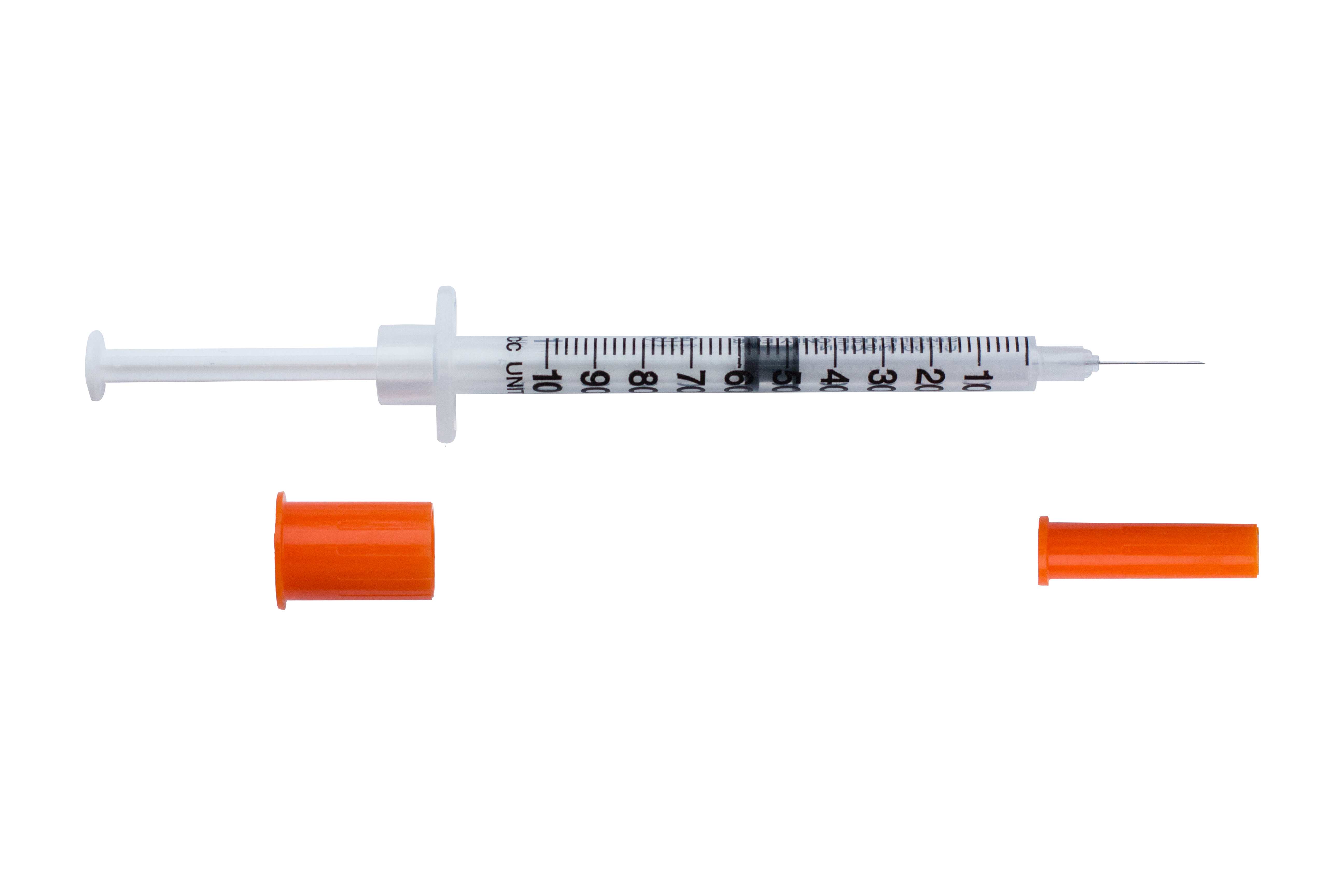 Insulin syringe in disassembled form